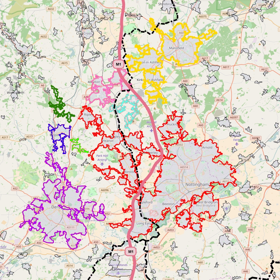 Map displaying the boundaries of the Nottingham, Derby and surrounding built-up areas. Extents to BUAs are: Nottingham/Ripley/Eastwood/Draycott/Smalley (red) Derby/Duffield/Borrowash (purple) Mansfield/Huthwaite/Annesley (yellow) Alfreton/South Normanton/Riddings/Pinxton (pink) Selston/Brinsley/Ironville (light blue) Belper/Milford/Holbrook/Openwoodgate (dark blue) Heage/Crich/Ambergate (dark green) Kilburn/Rawson Green/Horsley Woodhouse (light green) N: 53.210 N: 52.818 W: -1.608 E: -0.957 County borders L-R: Derbyshire, Leicestershire bottom triangle, Nottinghamshire, Leics bottom right. Motorway also shown